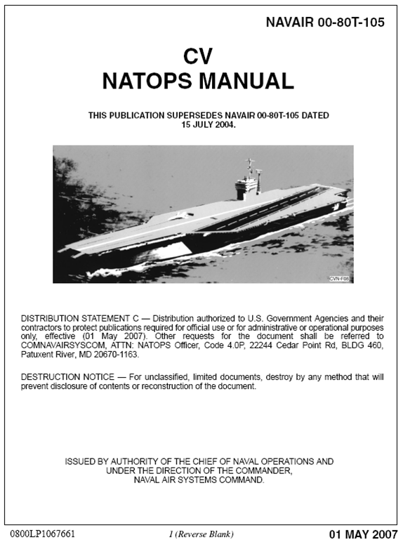 Cover of CV NATOPS Manual